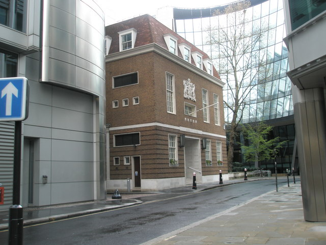 The Pewterer's Hall in Oat Lane